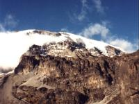 Kilimanjaro summit view from Baranco hut (3900 m) Photograph taken on the 4th August 2000 with a Canon Ixus II by Ringo Massa